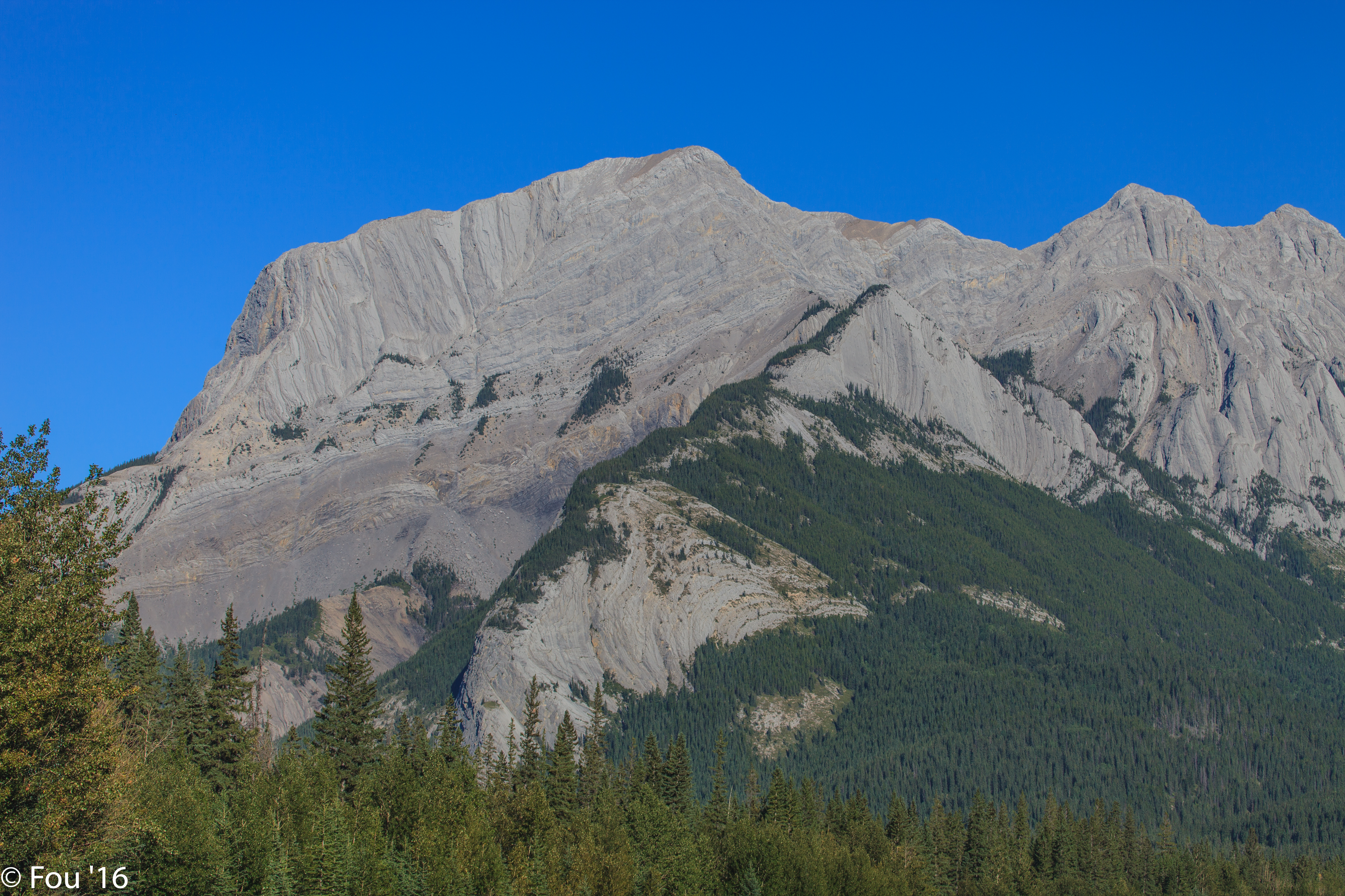 Highway 16 from Kamloops, BC to Lloydminster, Alberta...at E entrance to Jasper Park..Mt Roche a Perdix (2,135 m) I climbed the left ridge to the summit with Graeme Hynd in 68-09-10...